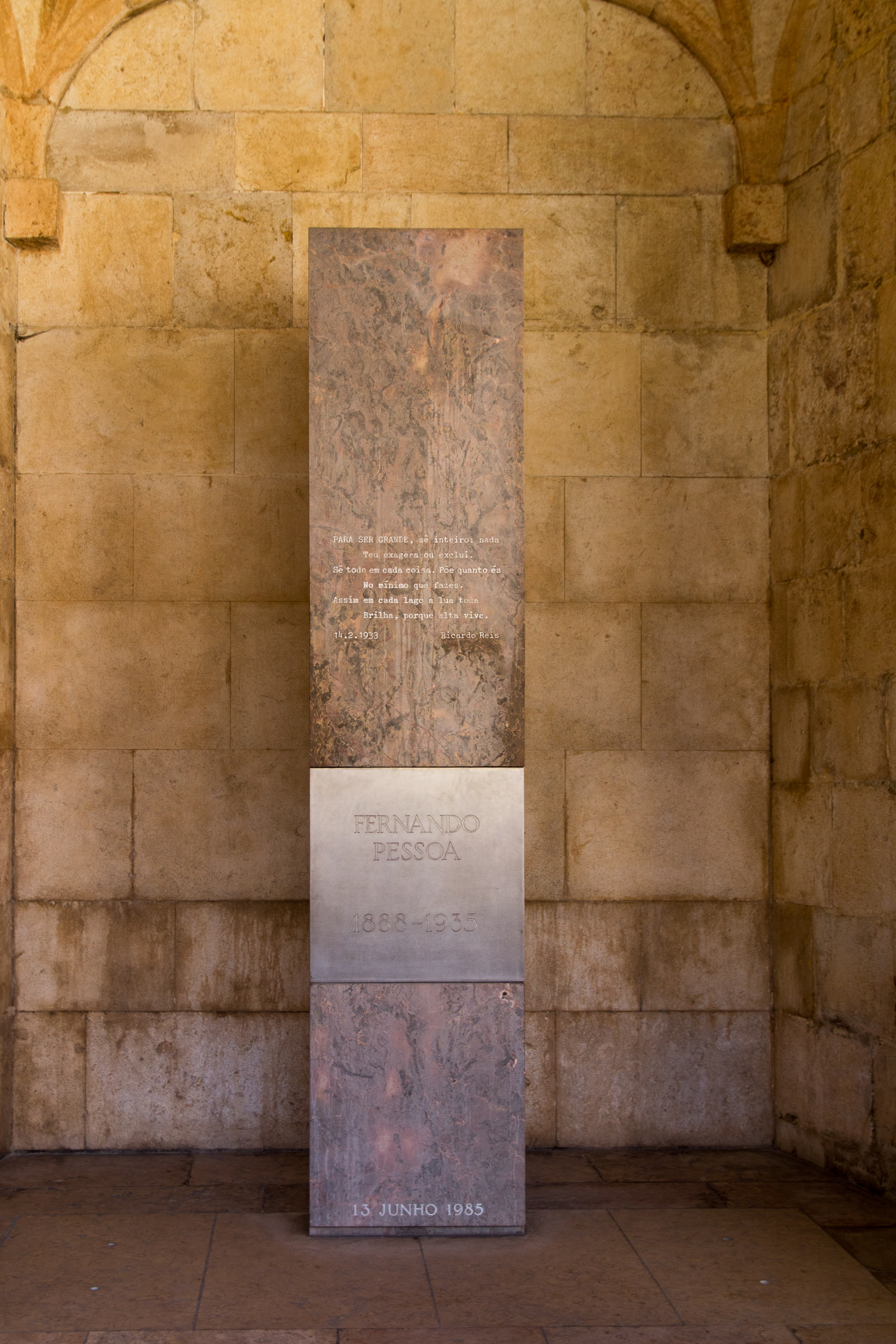 Tomb de Fernando Pessoa on the Jerónimos Monastery in Bélem.